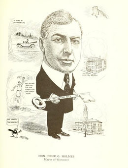 Pehr G. Holmes